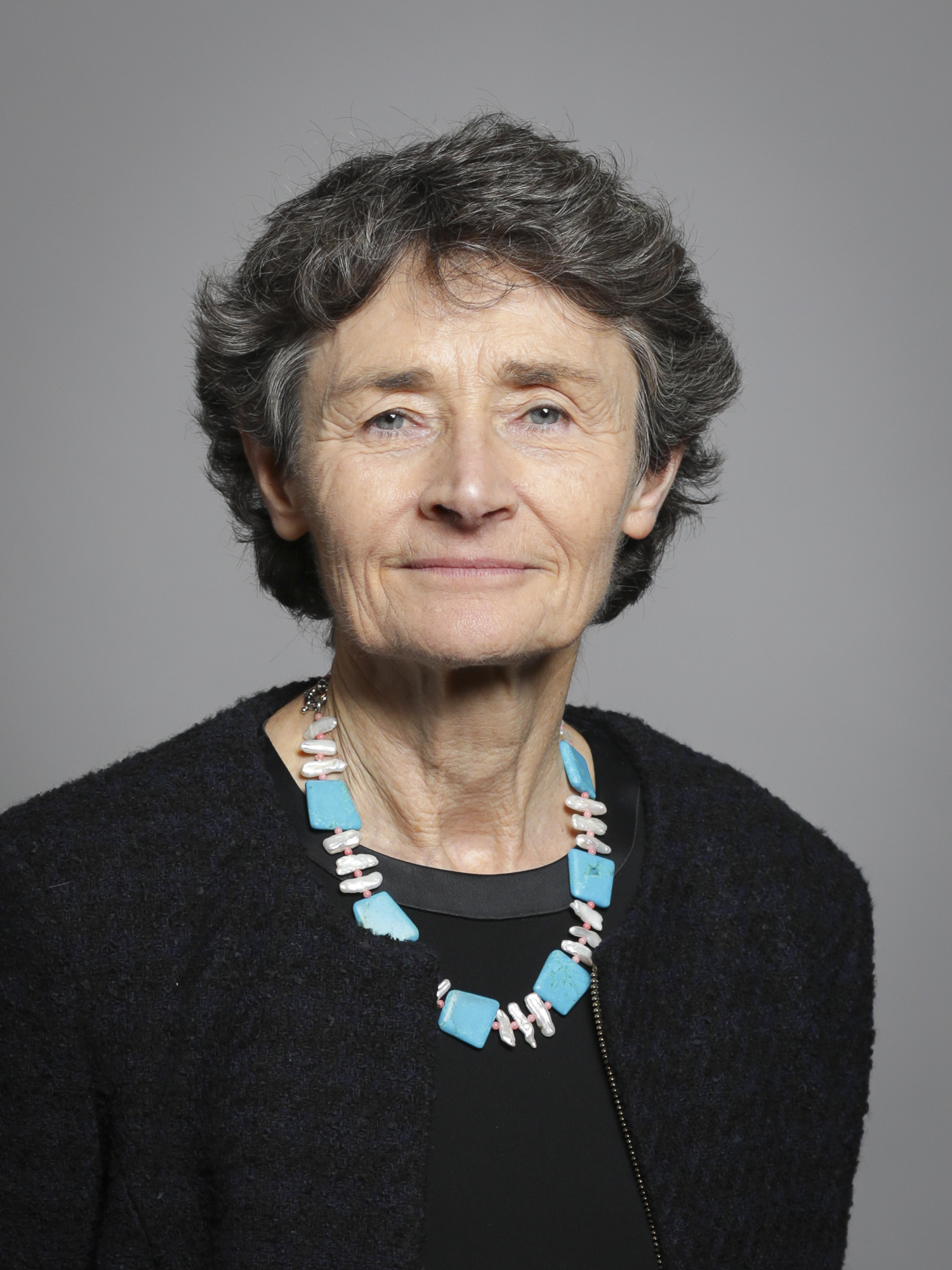 Official portrait of Baroness Morris of Yardley 3×4 portrait of Baroness Morris of Yardley